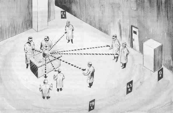 A sketch of Louis Slotin’s criticality accident, (1946-05-21), based on the map used to determine exposure of those in the room at the time.